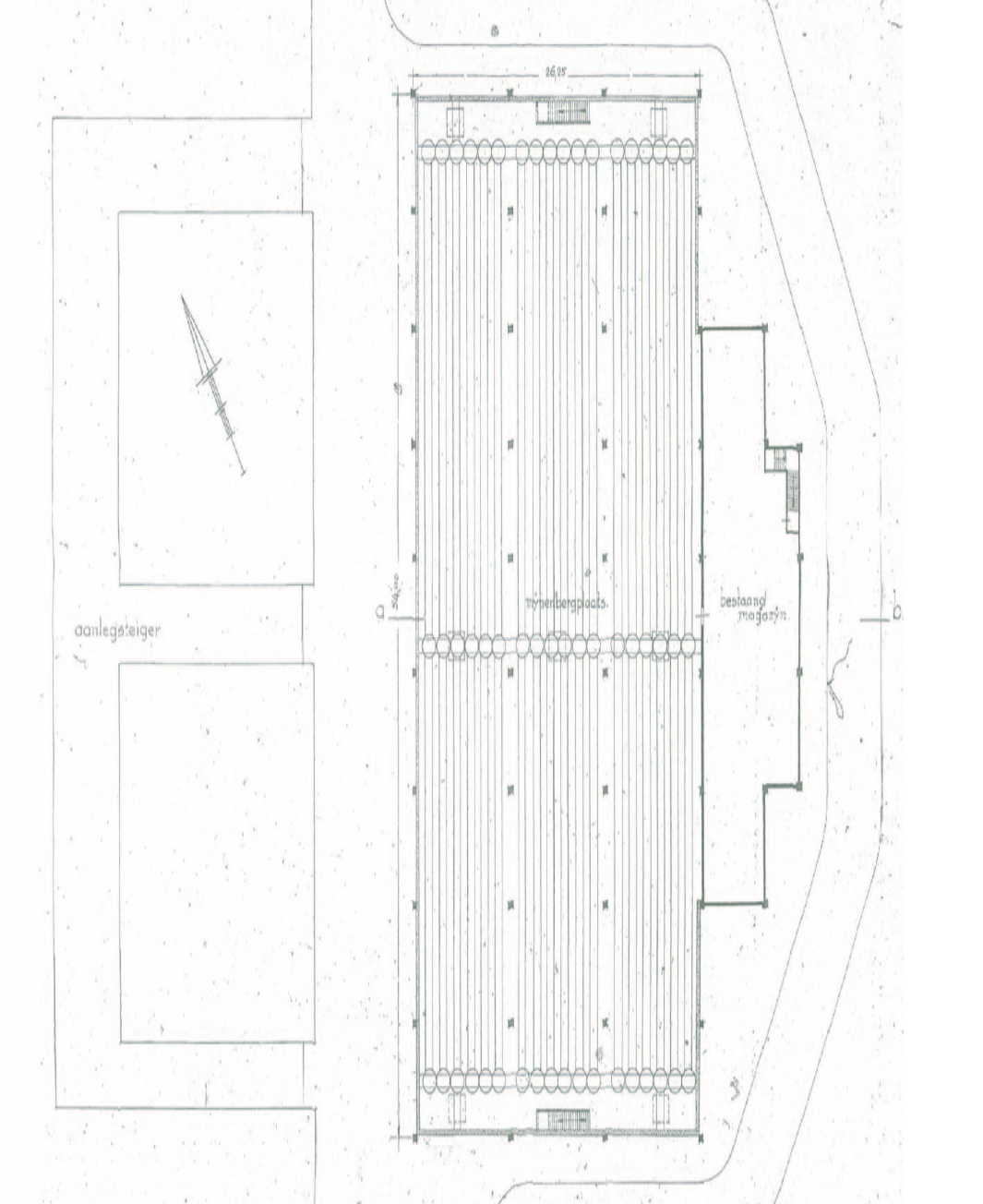 Original plan of the sea mine depot in Veere (erected 1916).